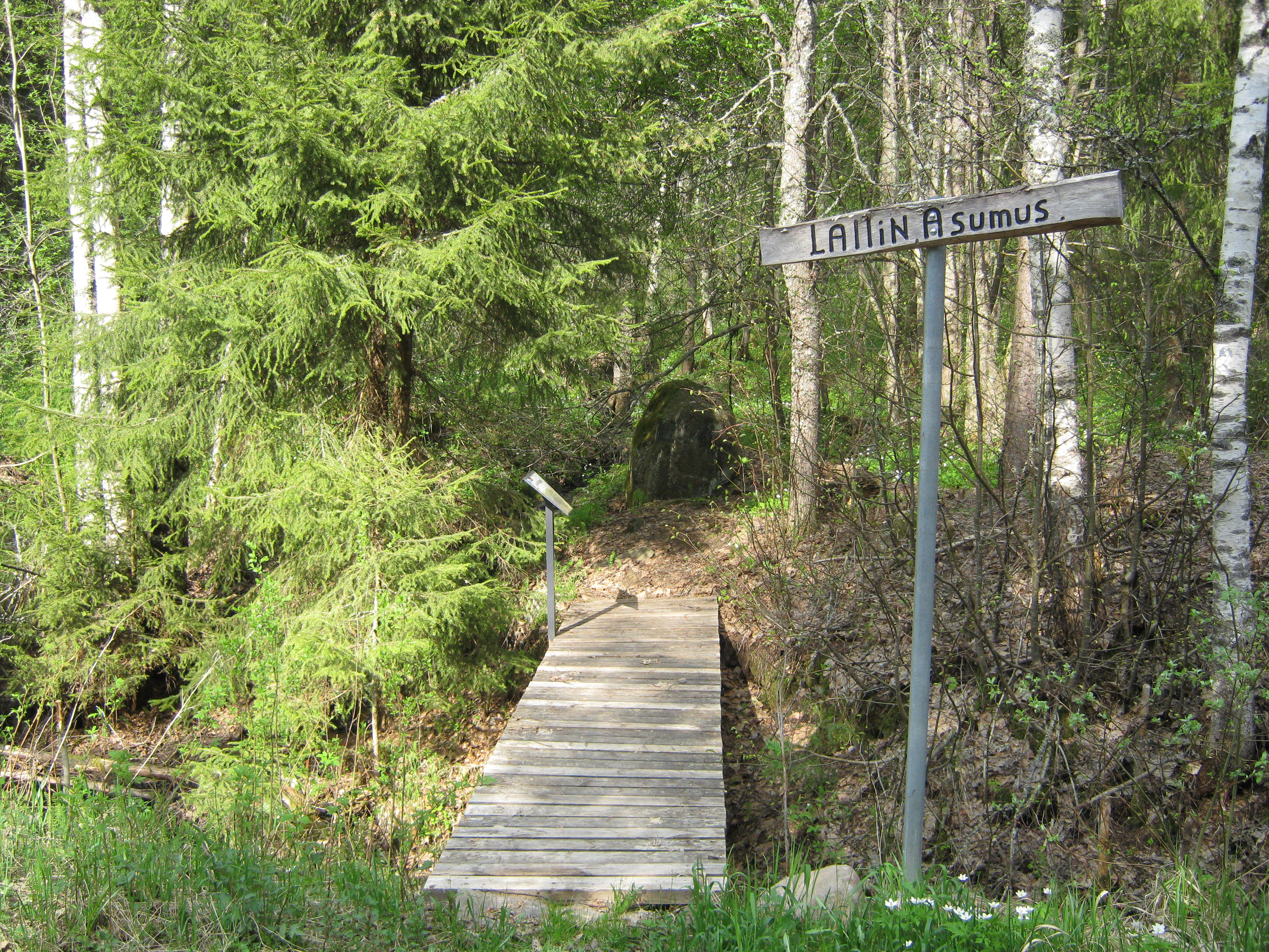 Traditional settlement of peasant Lalli, Köyliö, Finland.